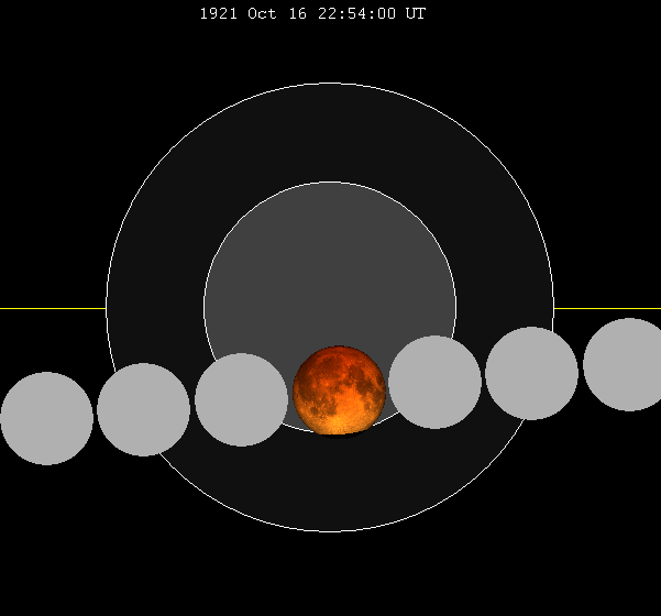 =lunar eclipse chart of moon's path through the earth's shadow. thumb